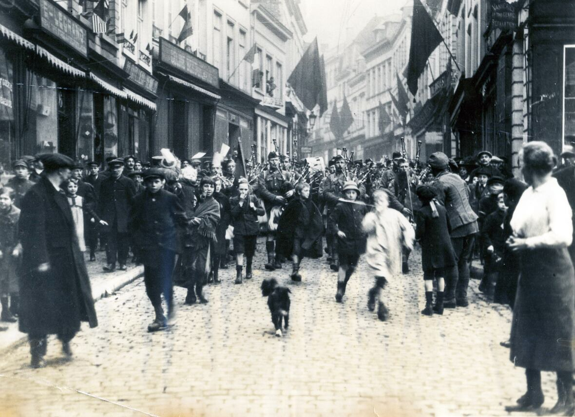 Members of the Black Watch of Canada march through the streets of Mons, in the immediate aftermath of the First World War. This photo is taken from the archives of the Black Watch of Canada, in Montreal.